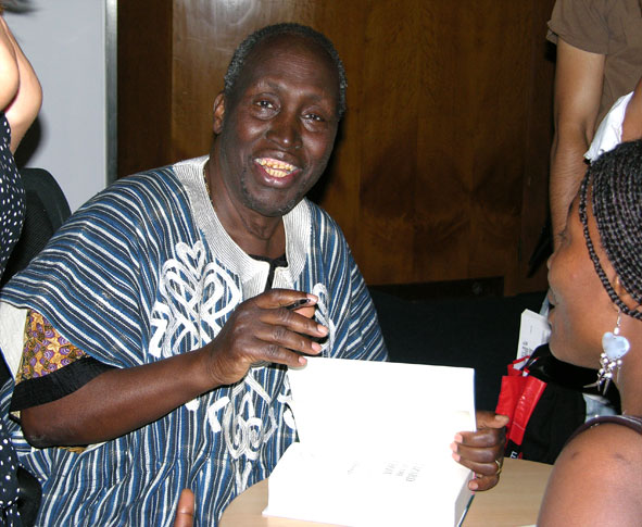 Ngũgĩ wa Thiong'o signs copies of his new book Wizard of the Crow at the Congress Centre in central London. Wizard was his first book in 20 years, following 22 years of exile due to his highly political work (including the bestselling novel Petals of Blood). Achebe selected the novel Weep Not, Child by Ngugi wa Thiong'o as one of the first titles of Heinemann's African Writers Series. Ngũgĩ wa Thiong'o.